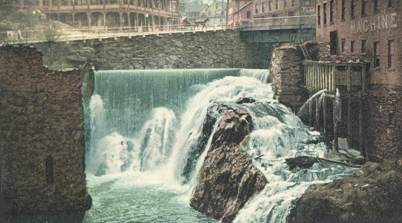 Whetstone Falls on Whetstone Brook, Brattleboro, Vermont; from a 1907 postcard printed by the Detroit Publishing Company.